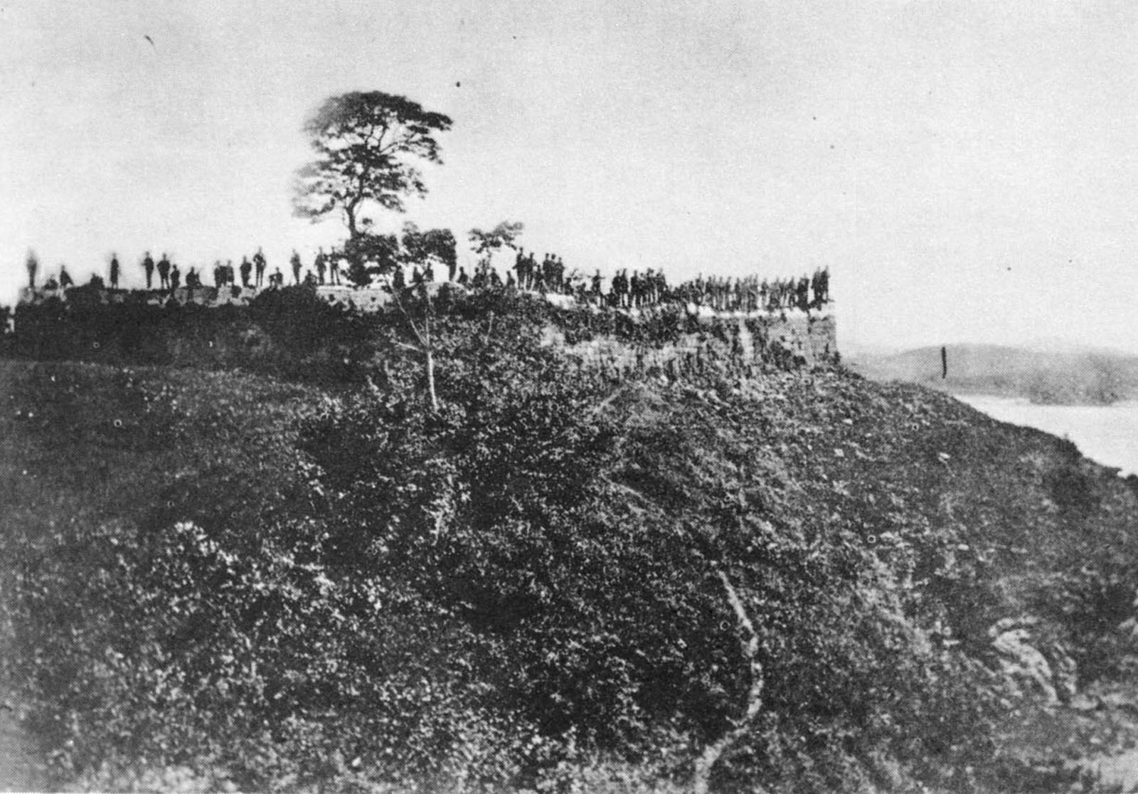 Americans celebrating their victory over the Deokjin Garrison.